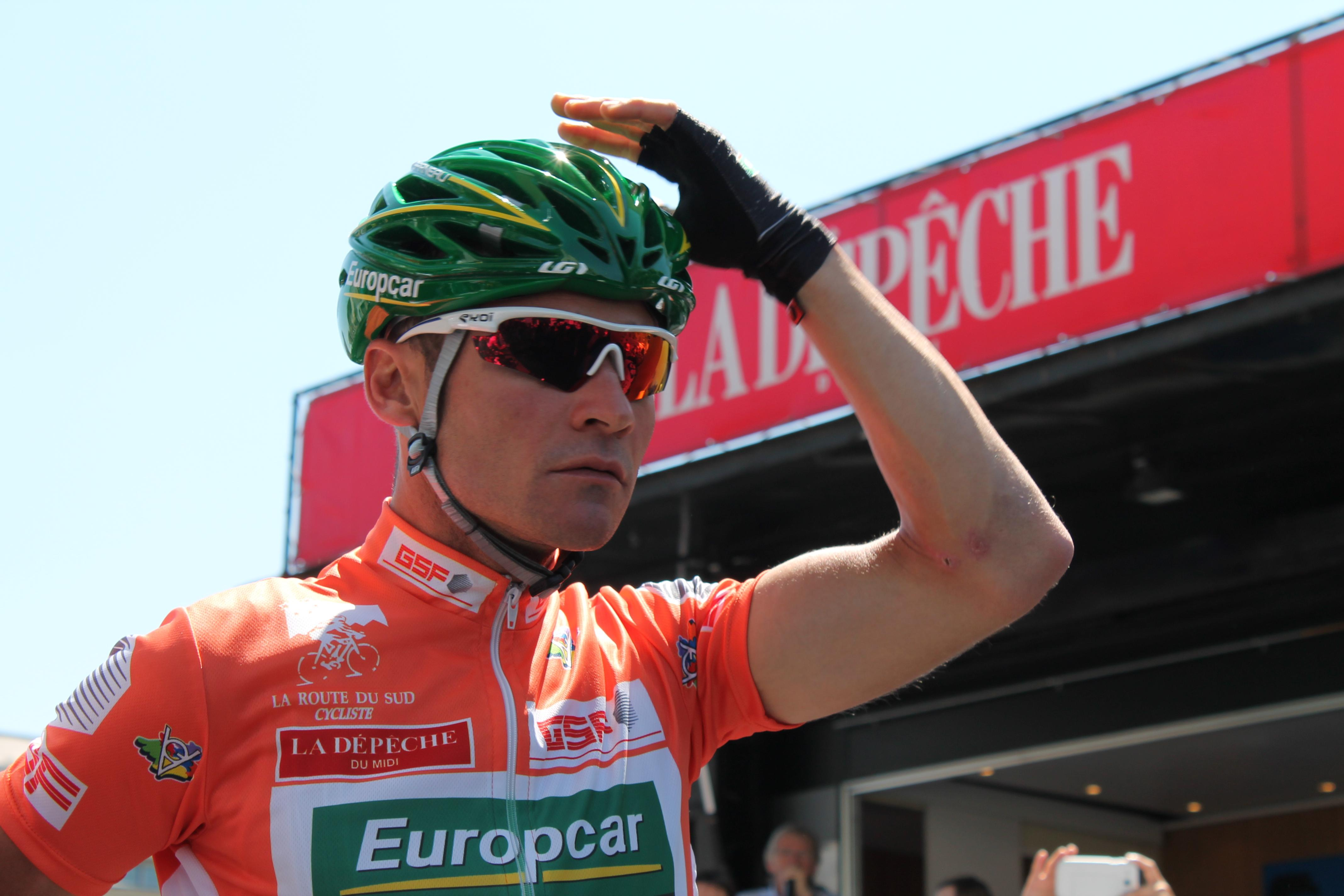 Thomas Voeckler (Europcar) at the start of 4th and last stage of 2013 Route du Sud in Saint-Gaudens.